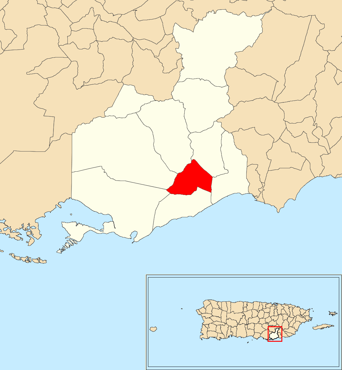 Guayama barrio-pueblo, Guayama, Puerto Rico locator map